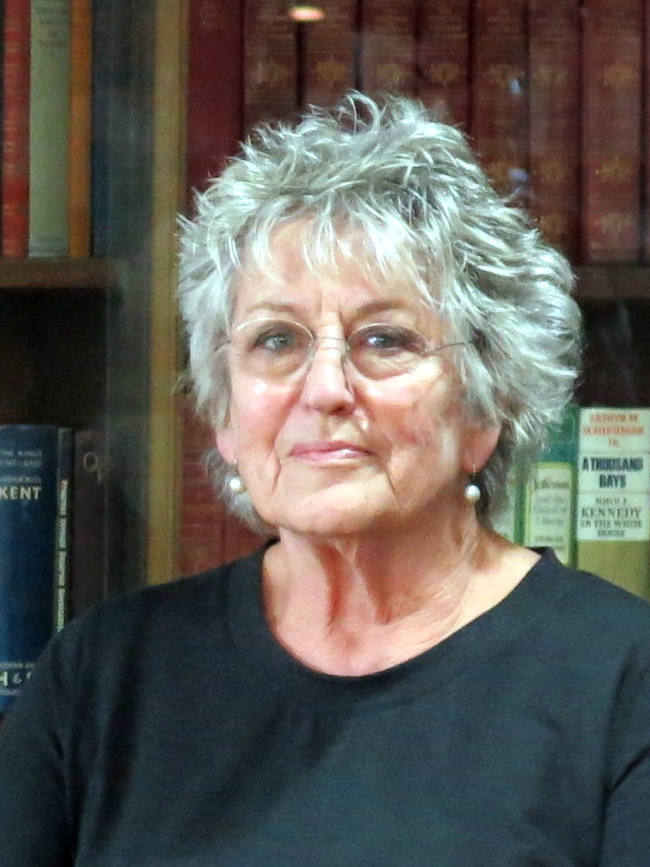 Germaine Greer at the University of Melbourne